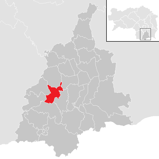 District Leibnitz